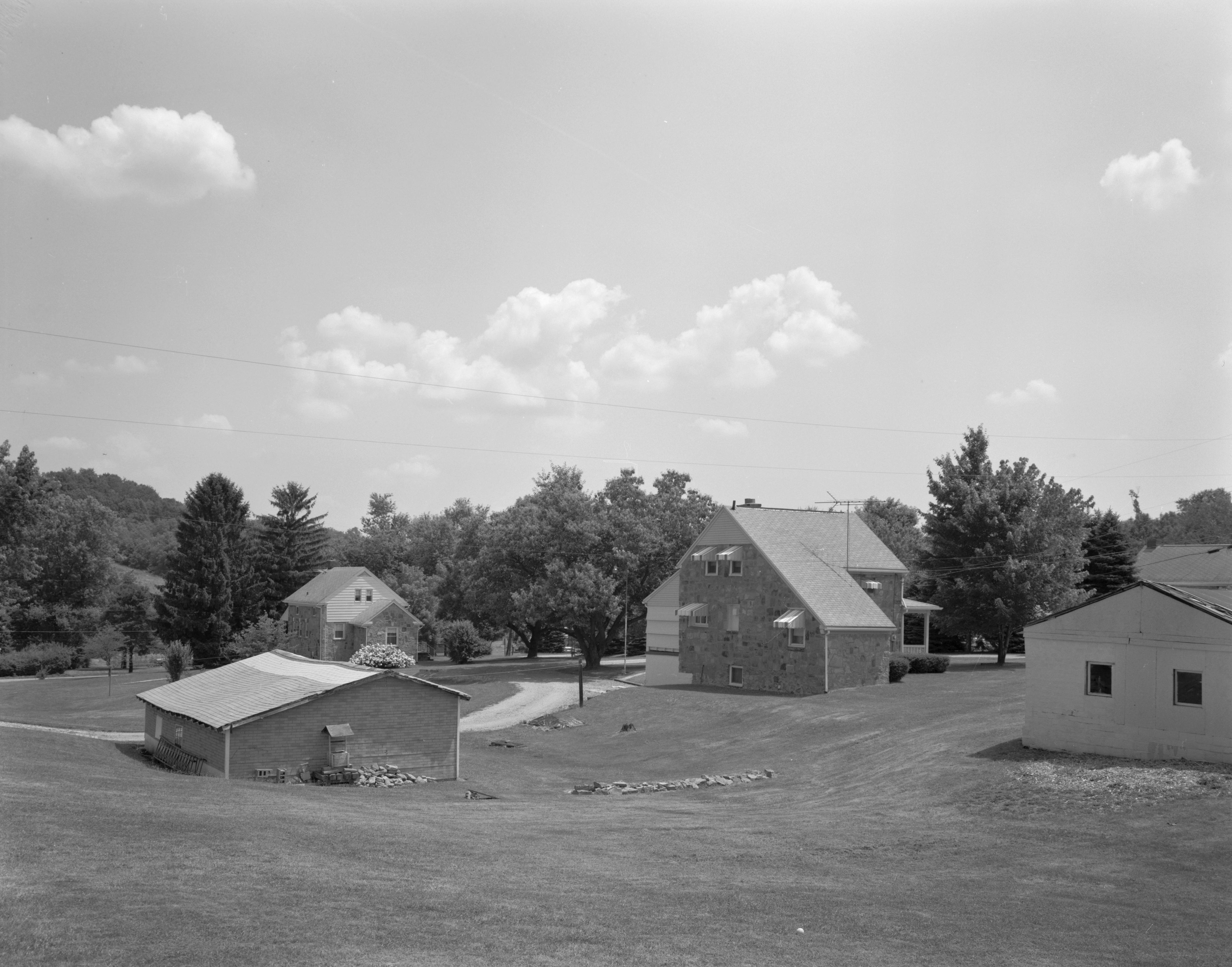 Houses and a poultry house in Penncraft, an unincorporated community in Luzerne Township, Fayette County, Pennsylvania, United States. The community is a historic district, the Penn-Craft Historic District, which is listed on the National Register of Historic Places.